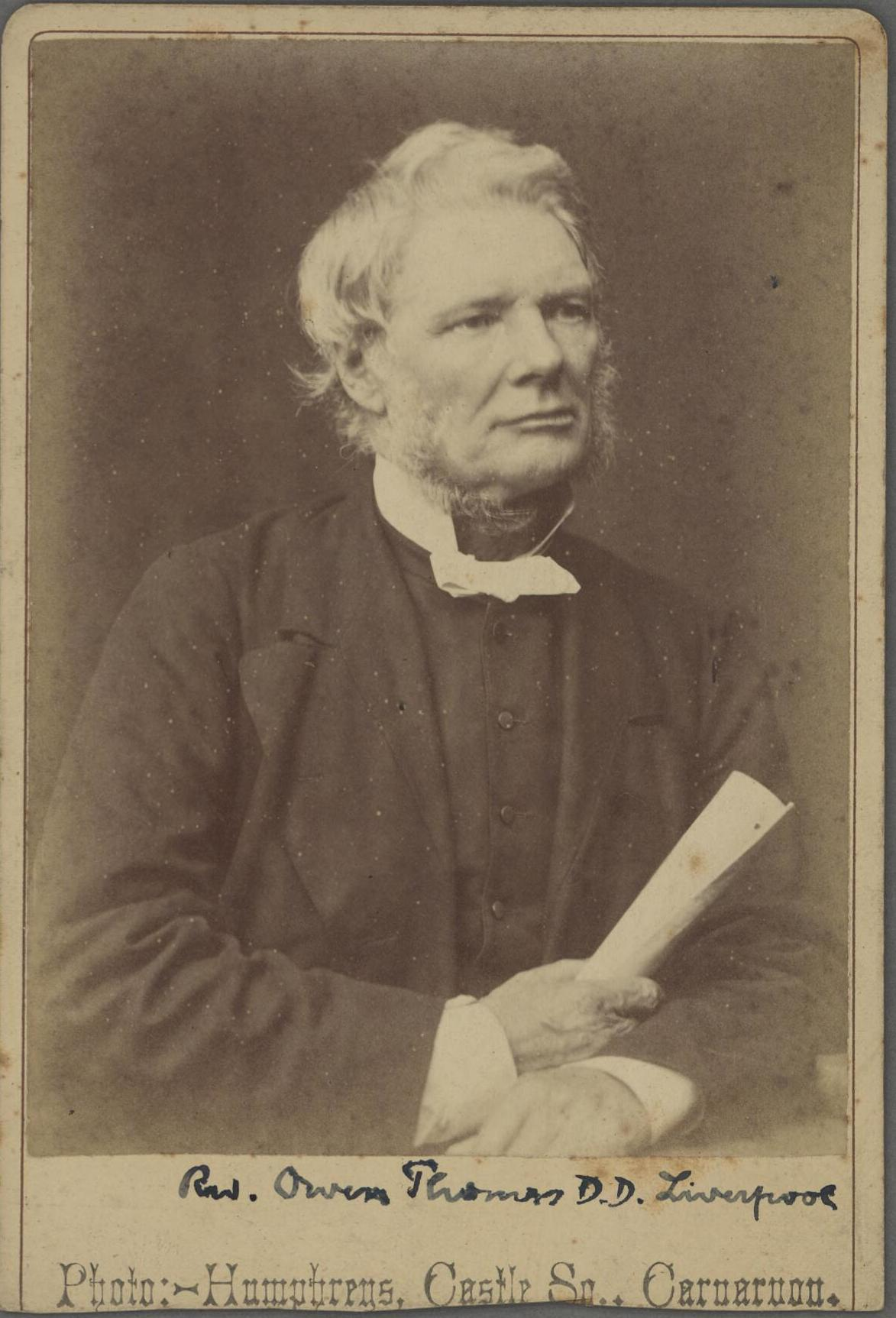 A portrait from the Welsh Portrait Collection at the National Library of Wales. Depicted person: Owen Thomas – Welsh Calvinistic Methodist minister and author (1812–1891)